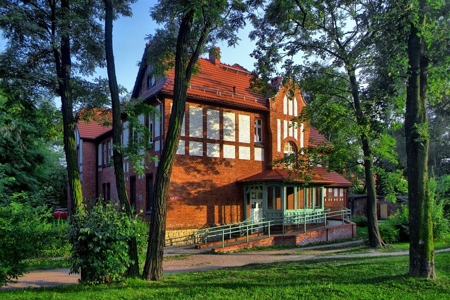 Public Library in Czerwionka (Rybnik county, Poland). Built around 1900, renovated in 2010.